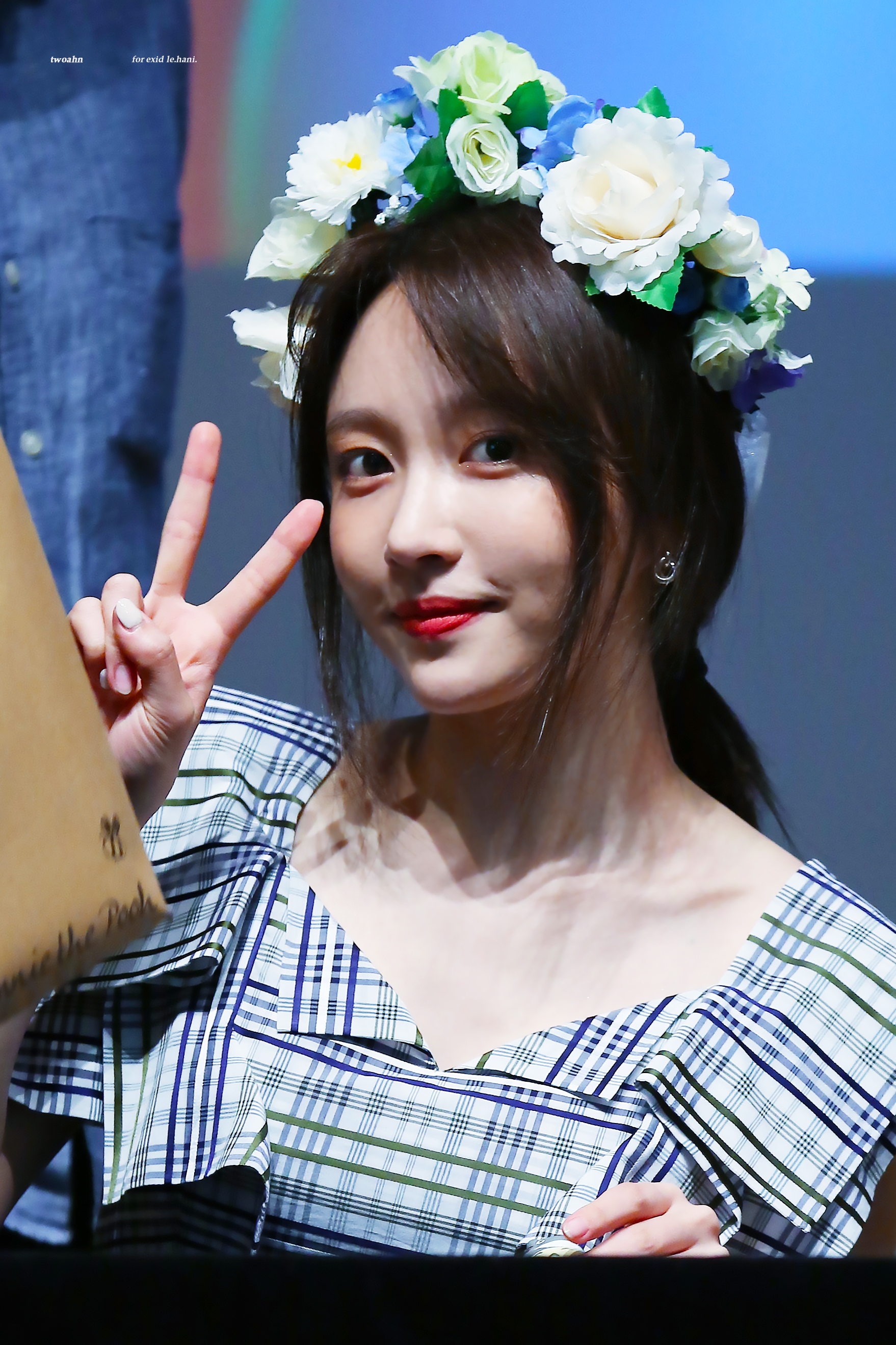 190519 동자아트홀 팬사인회